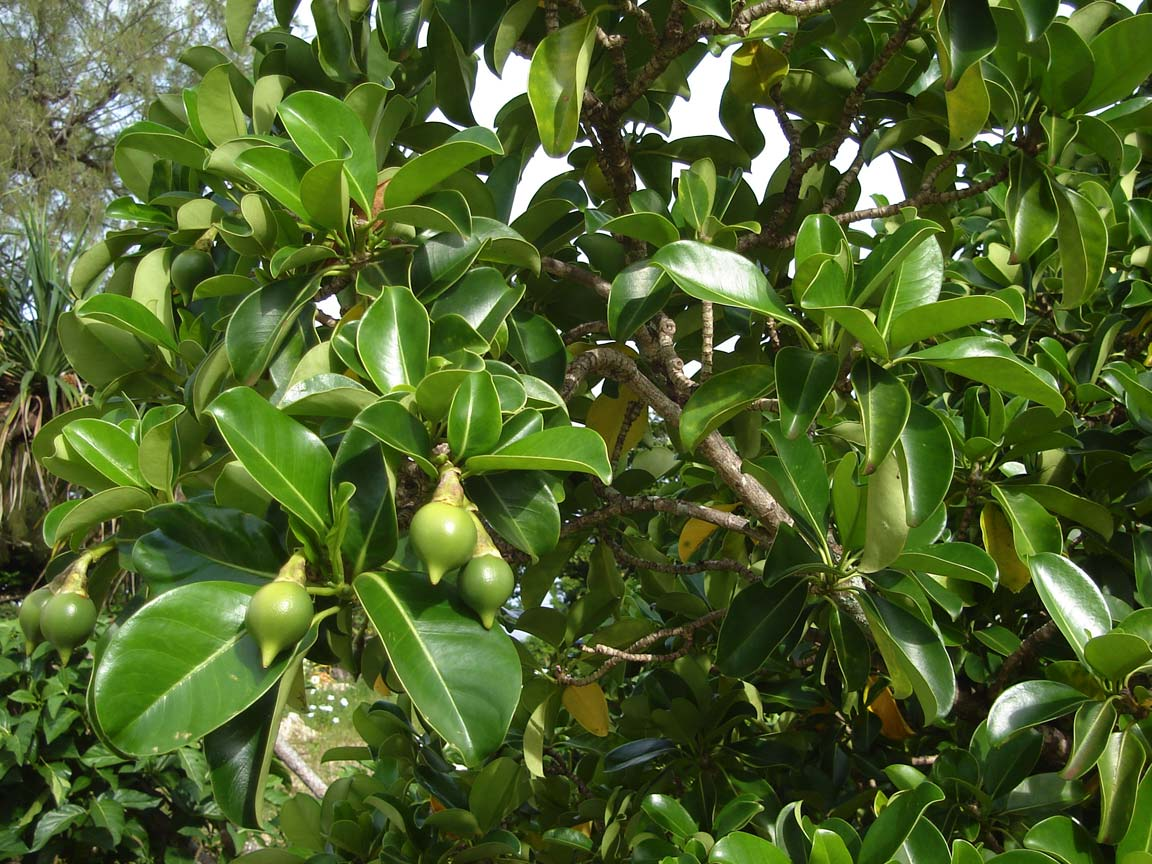 Fruits (not seeds!) of the Fagraea berteriana (Pua, the famous Pua-ko-fanongo-talanoa itself) on Tonga